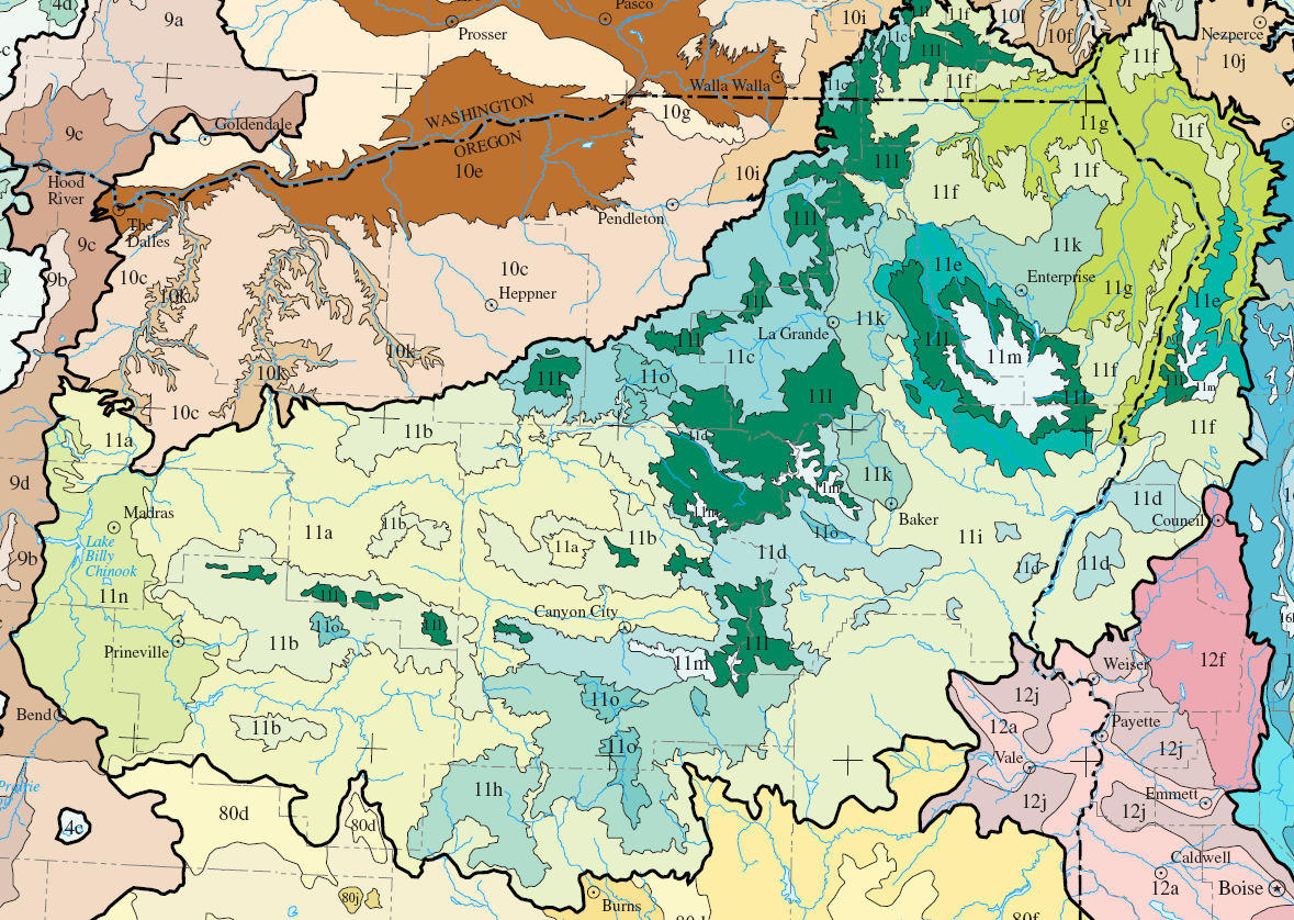 Level IV ecoregions in the Blue Mountains ecoregion, ]as defined by the EPA. Located primarily in Oregon. This map is a draft and may now be slightly outdated. For more information about these ecoregions, see [1]